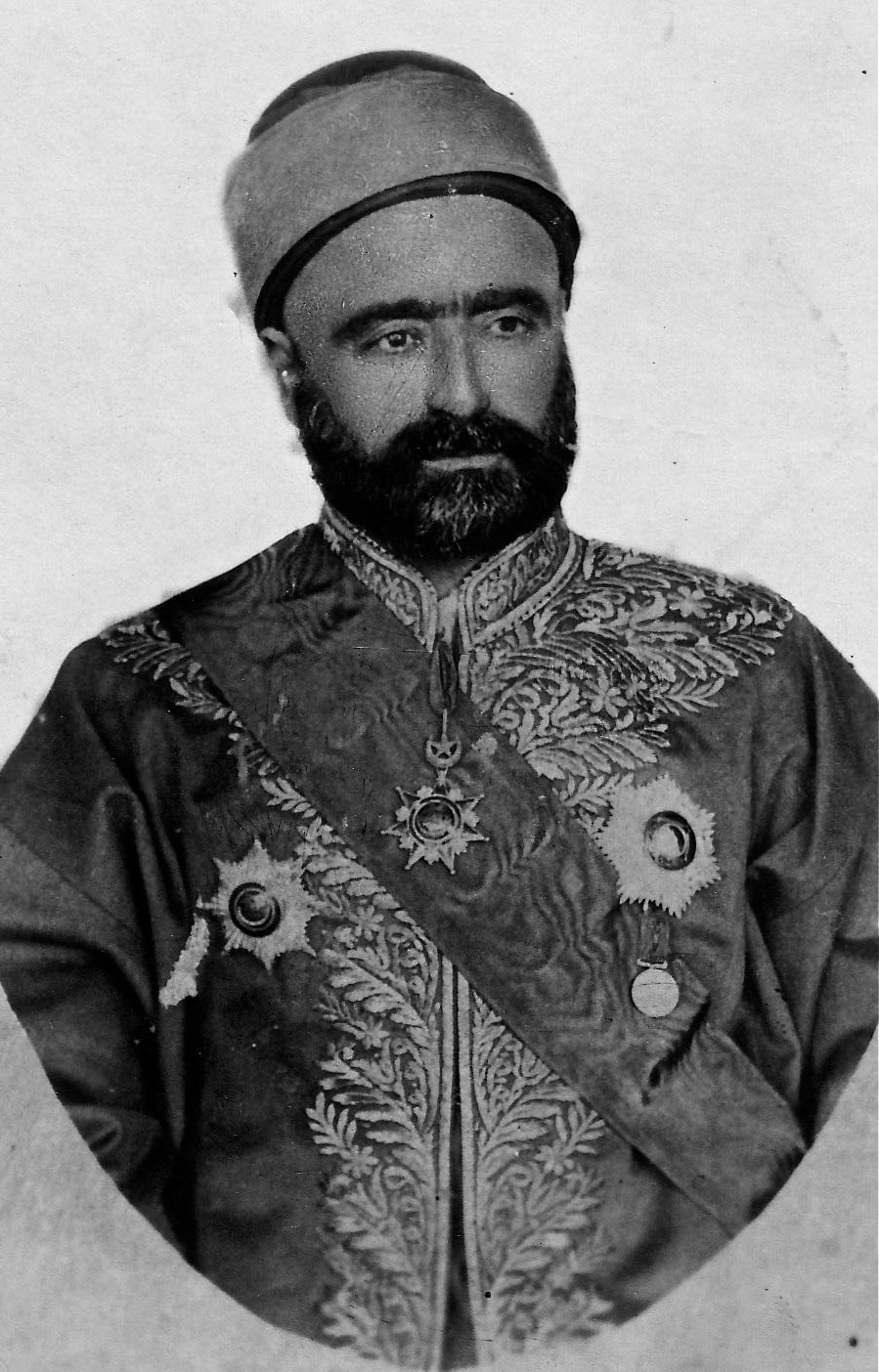 It is a historical photograph of the Naqib Ashraf of Basra, Rajab al-Naqib.